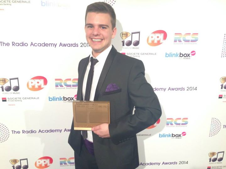 URB station manager Jonty Usborne at the the 2014 Radio Academy Awards with his bronze award for Best Technical Innovation.